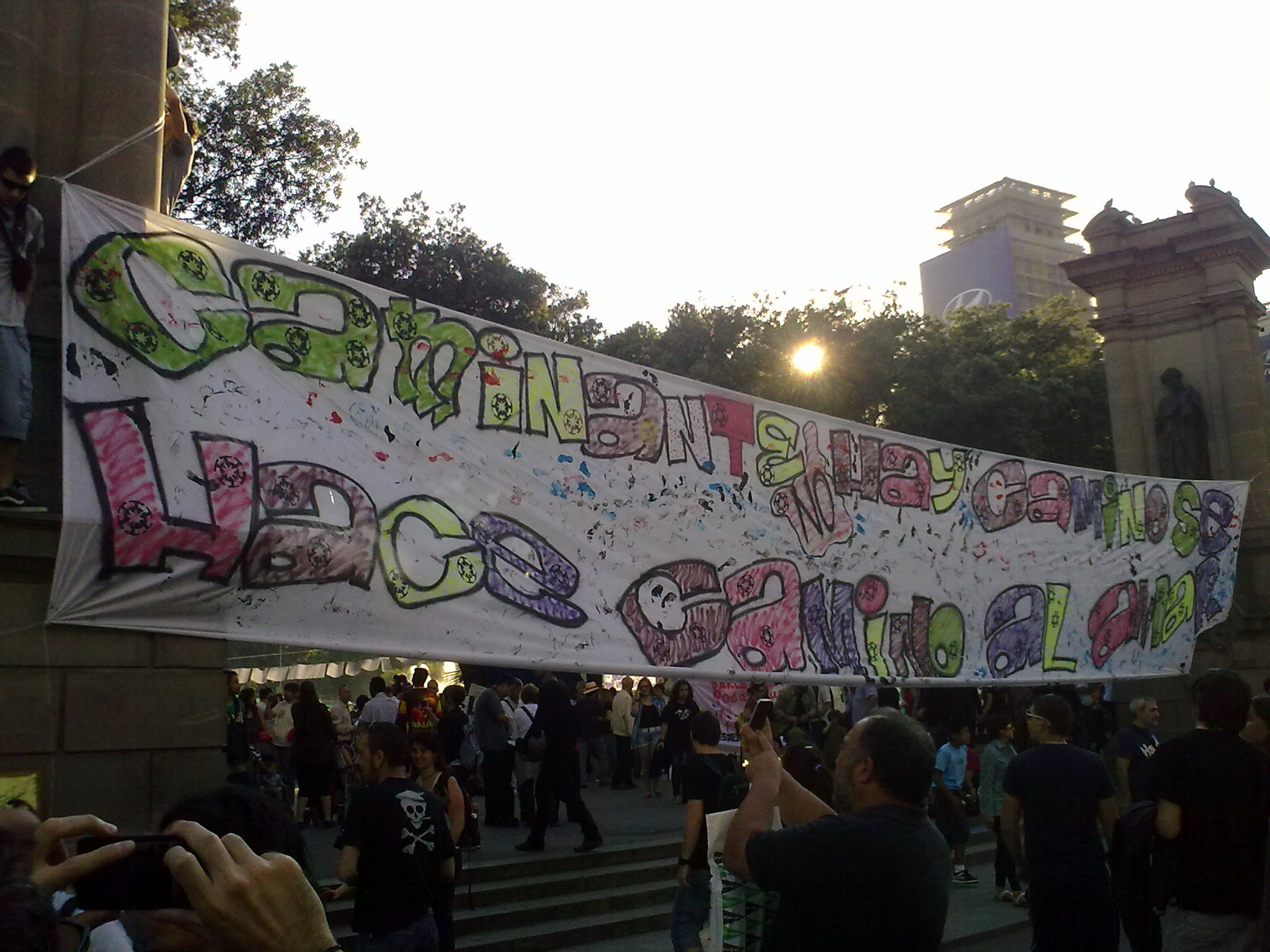 'Caminante no hay camino, se hace camino al andar' (a famous Antonio Machado poem that translated will say, more or less: walker there's no way, is made by walking) banner at Plaça Catalunya,on friday may 20th 2011, during Spanish Revolution citizen protests against spanish false democracy and its corrupted politic class.